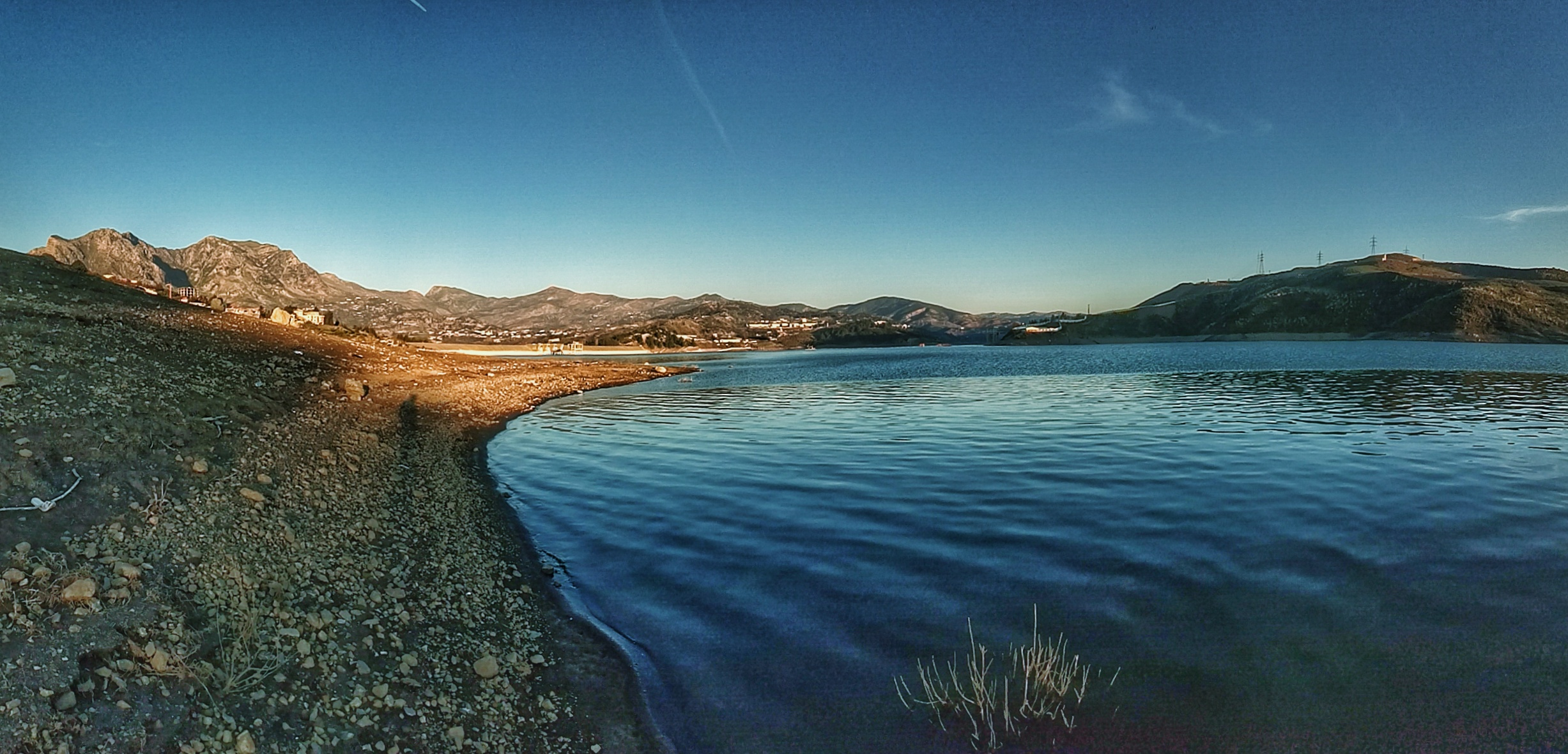 جازايرية: سد خراطة This is an image with the theme "Africa on the Move or Transport" from: Algeria